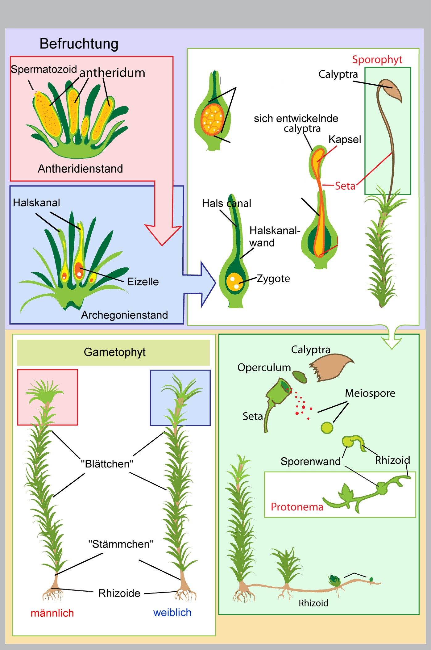 Life cycle of mosses